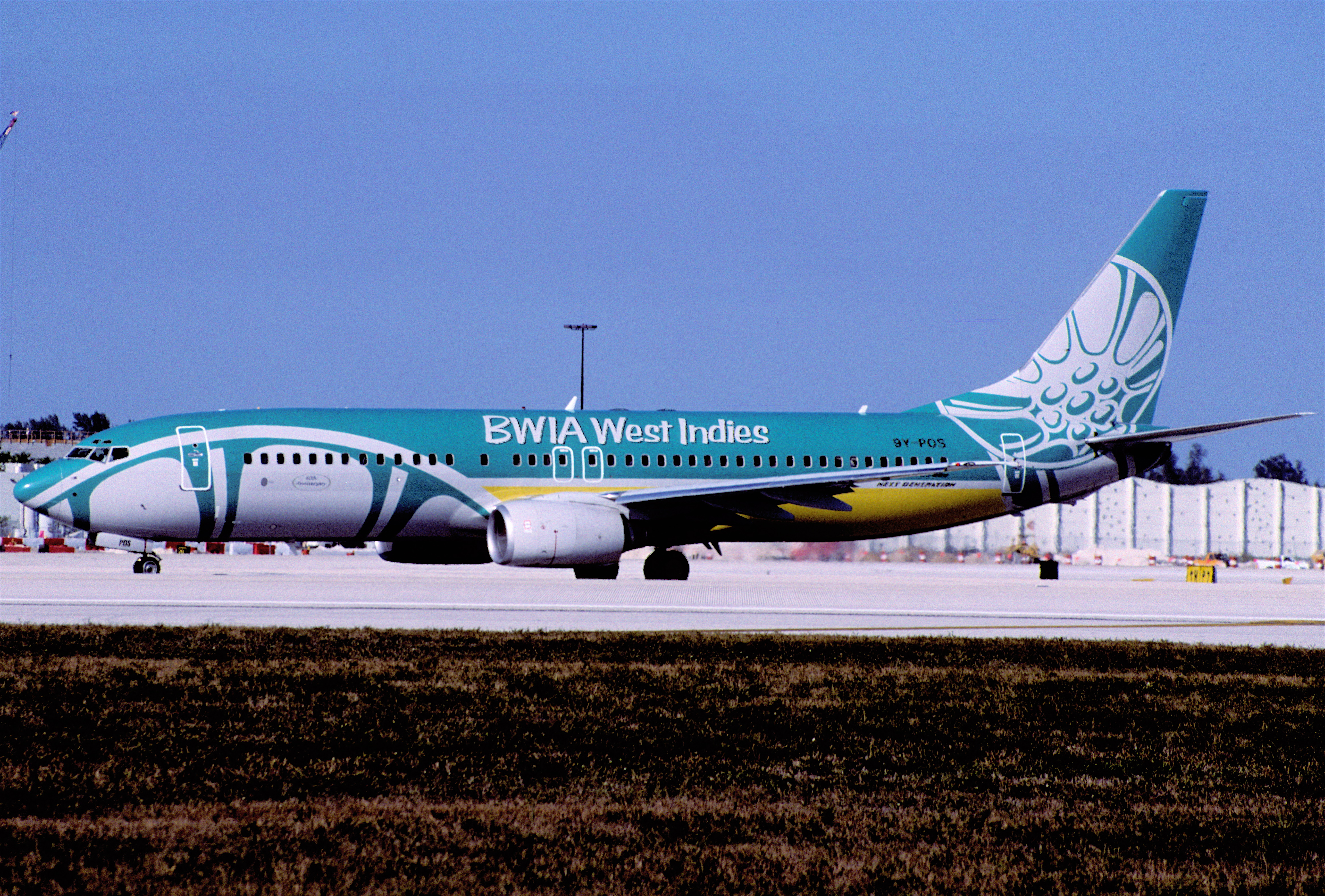 BWIA Boeing 737-800; 9Y-POS@MIA, February 2002